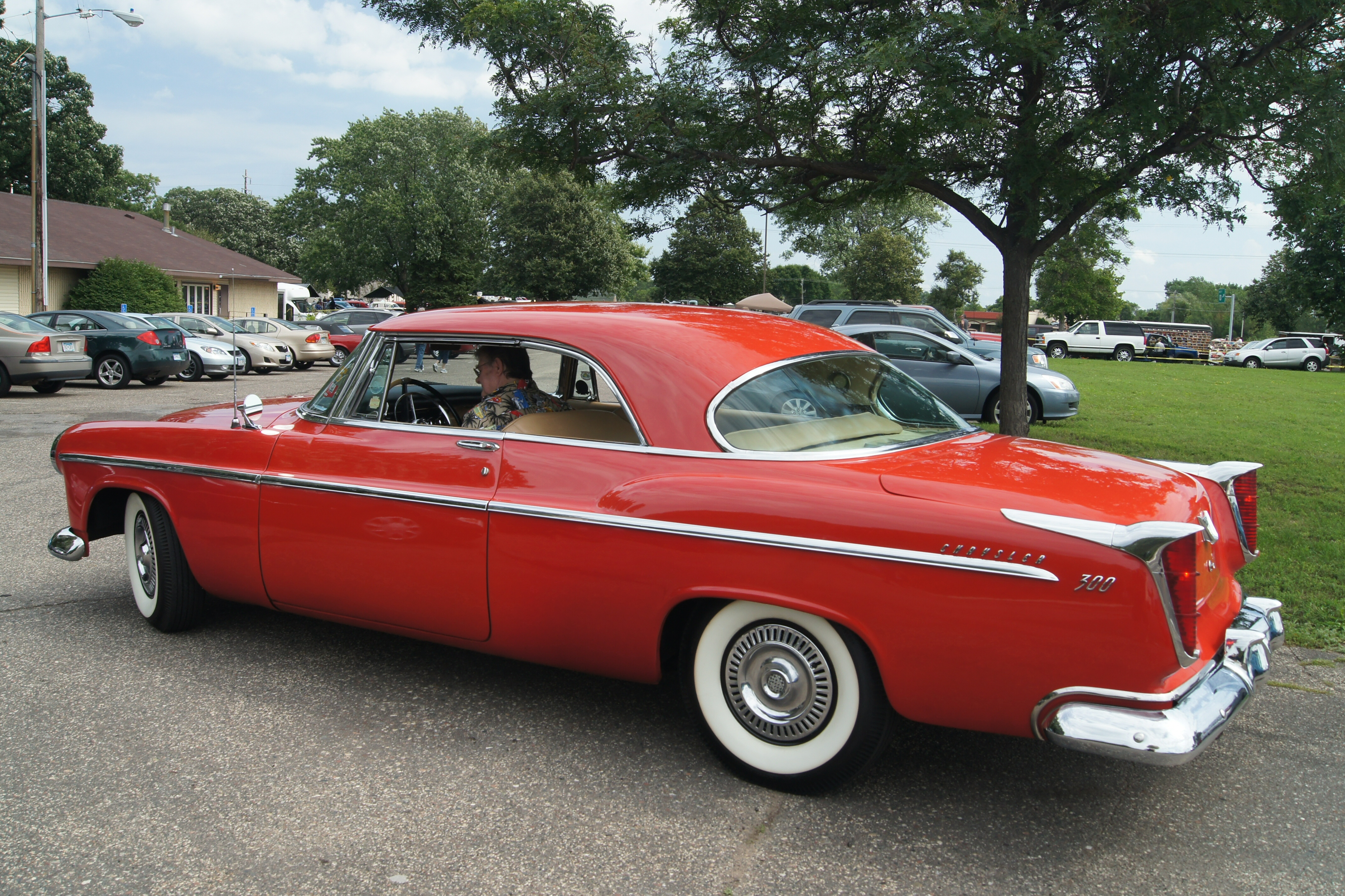 47th Annual Twin Cities Collectors Car Show & Swap Meet August 2014 Aquatore Park Blaine, Minnesota ********----- Click here for more car pictures at my Flickr site. Or here for my Car Crazy Tumblr site. Or on Twitter @DVS1mn.